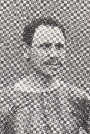 Tommy Leigh while with Brentford FC in 1903/04